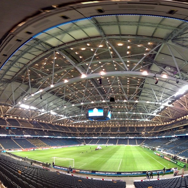 Friends Arena before opening match between Sweden and England.